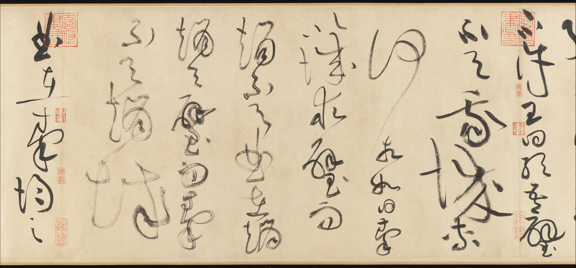 China; Handscroll; Calligraphy